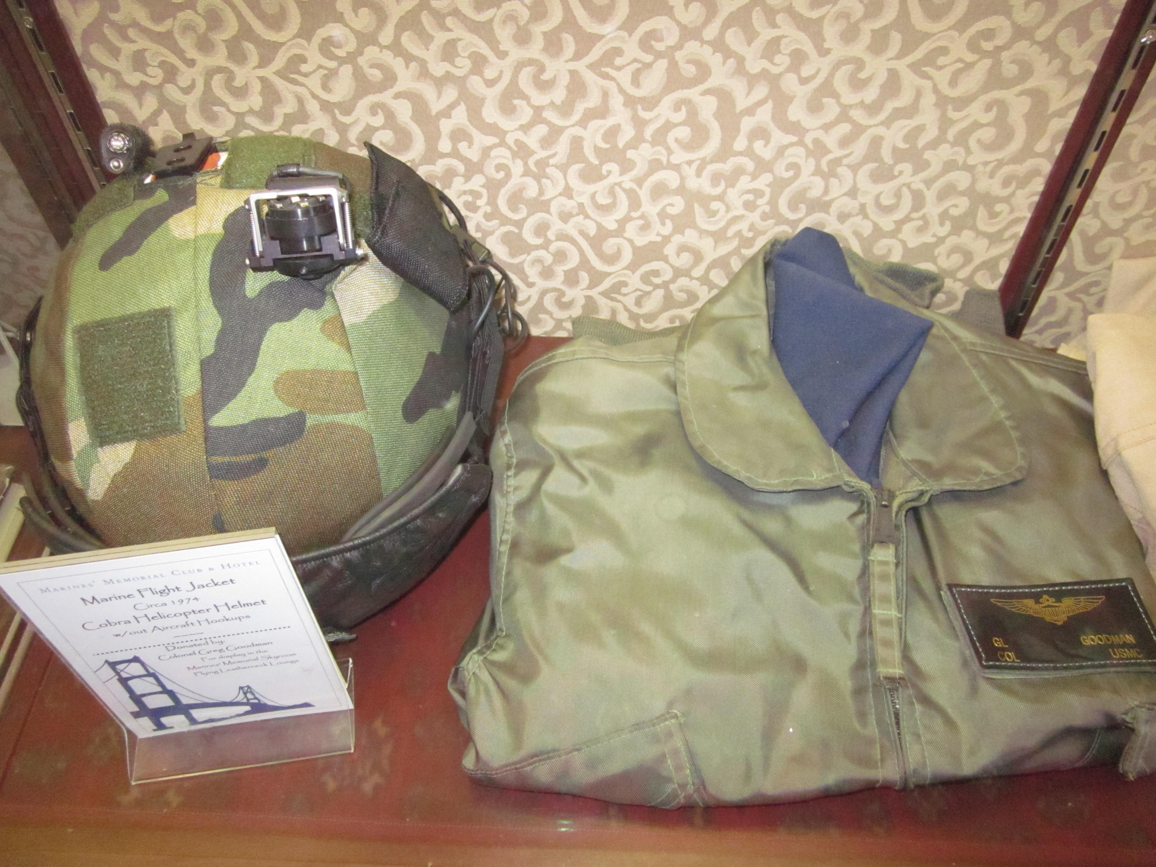 A Cobra flight helmet and USMC flight jacket on display at the Marines' Memorial Hotel in San Francisco, California.